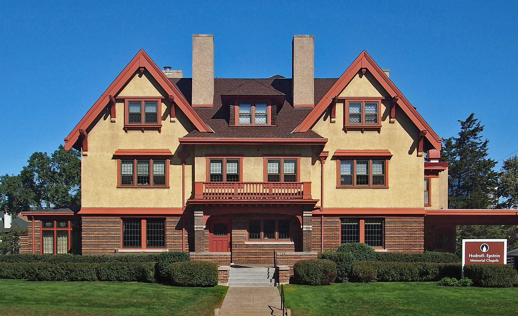 Edwin H. Hewitt House (now the Hodroff-Epstein Memorial Chapels), 126 E Franklin Ave, Minneapolis, Minnesota, USA. Viewed from the south.